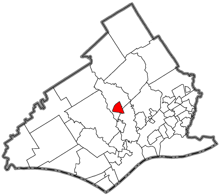 Showing the location within Delaware County, Pennsylvania.